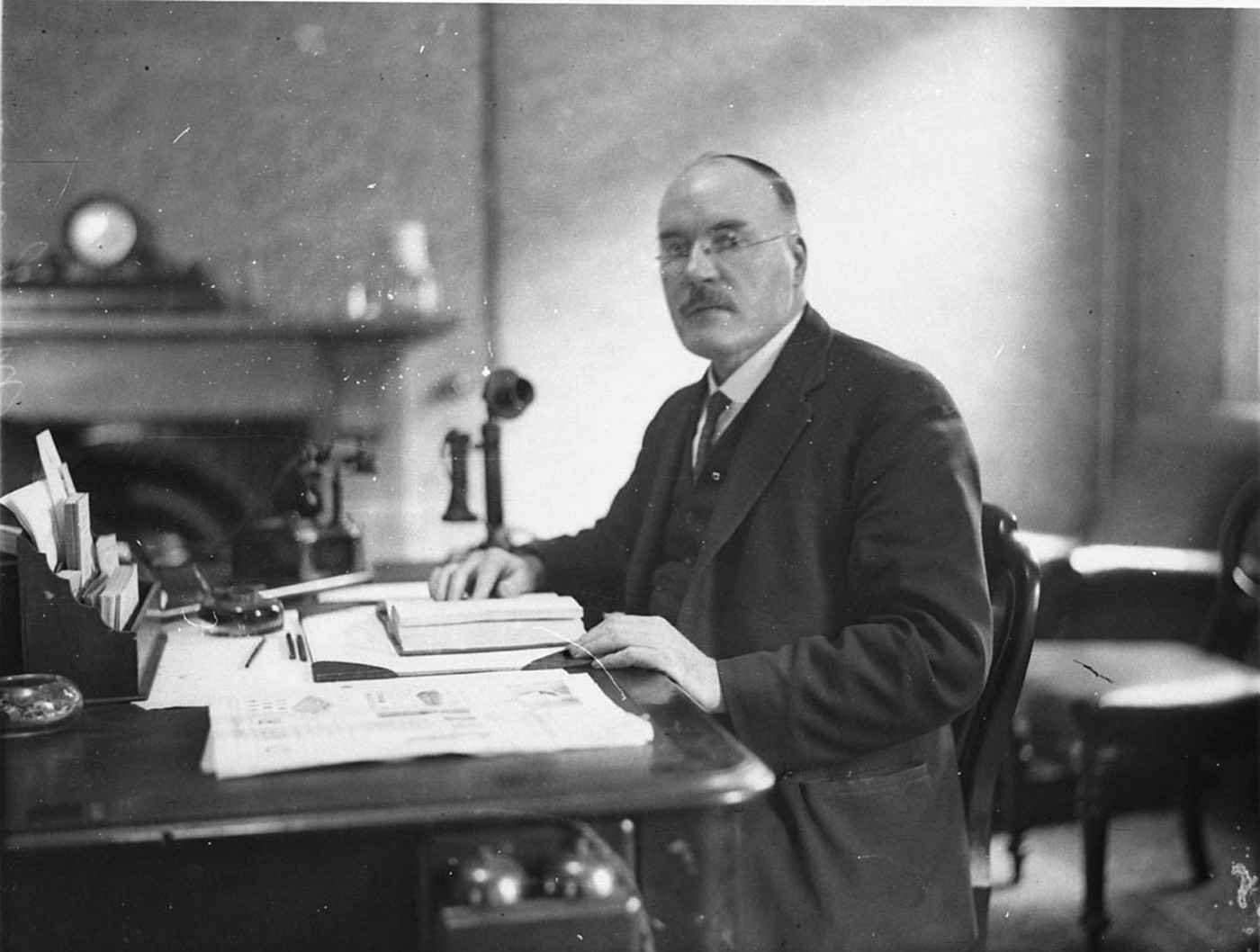 Jack Lang sitting at his desk in his office